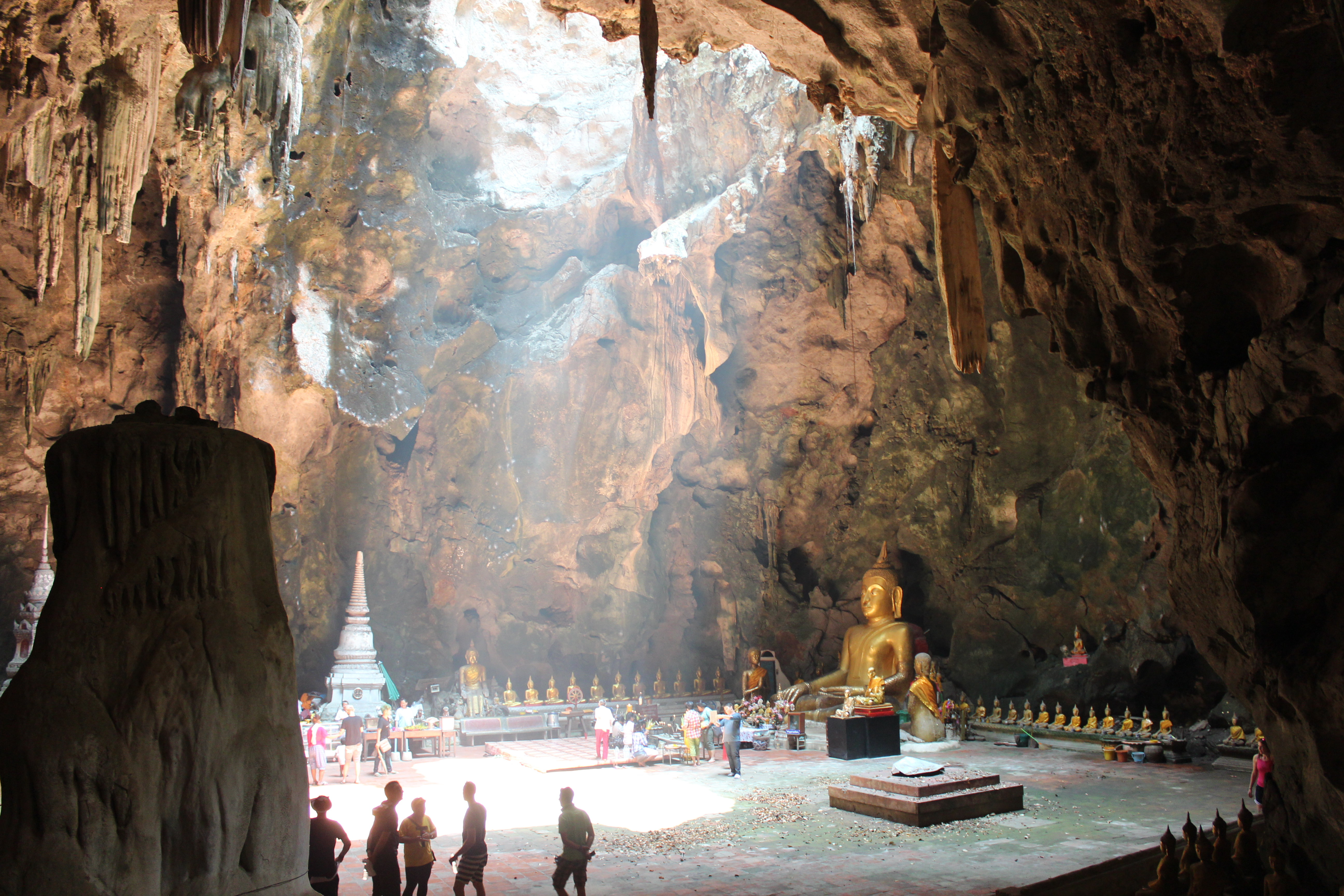 Tham Khao Luang Cave, Thong Chai, Phetchaburi, Thailand.